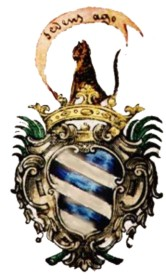 Coat of arms of the House of Fieschi